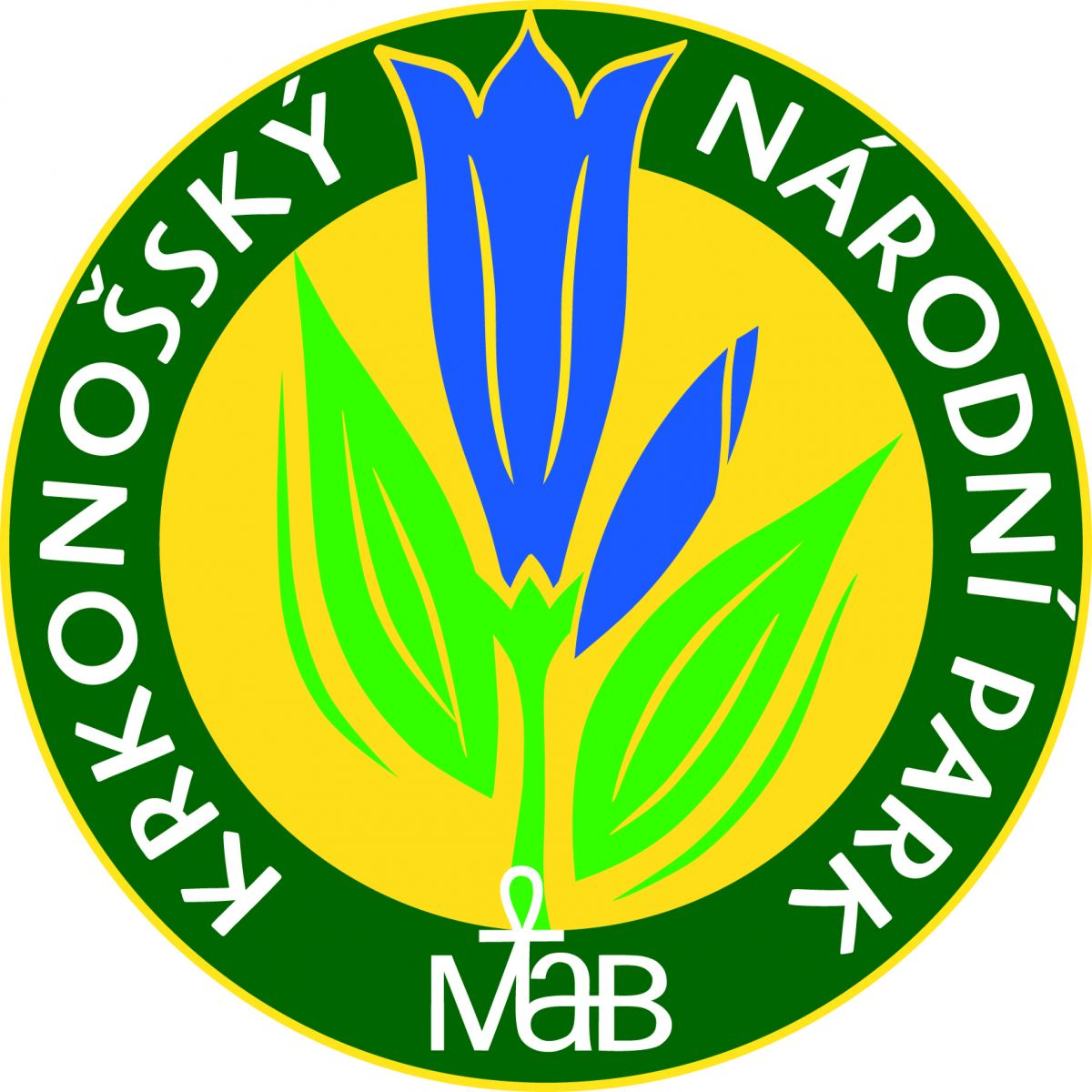 Logo of Karkonosze National Park in Czech Republik (from 2008 to 2013)